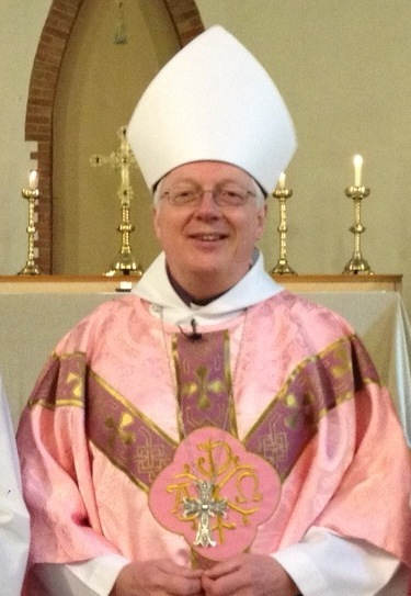 The Anglican Bishop of Willesden (London), wearing rose-pink vestments on Laetare Sunday, accompanied by three of his priests, also in rose-pink stoles, at North Acton parish church.